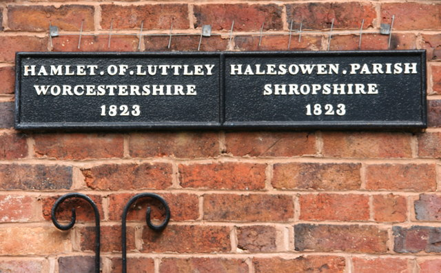 The Old Worcestershire/Shropshire Border - Lutley This is a photo of the plaque attached to the wall of Lutley Mill in Halesowen. It shows the old Worcestershire/Shropshire Border in 1823.